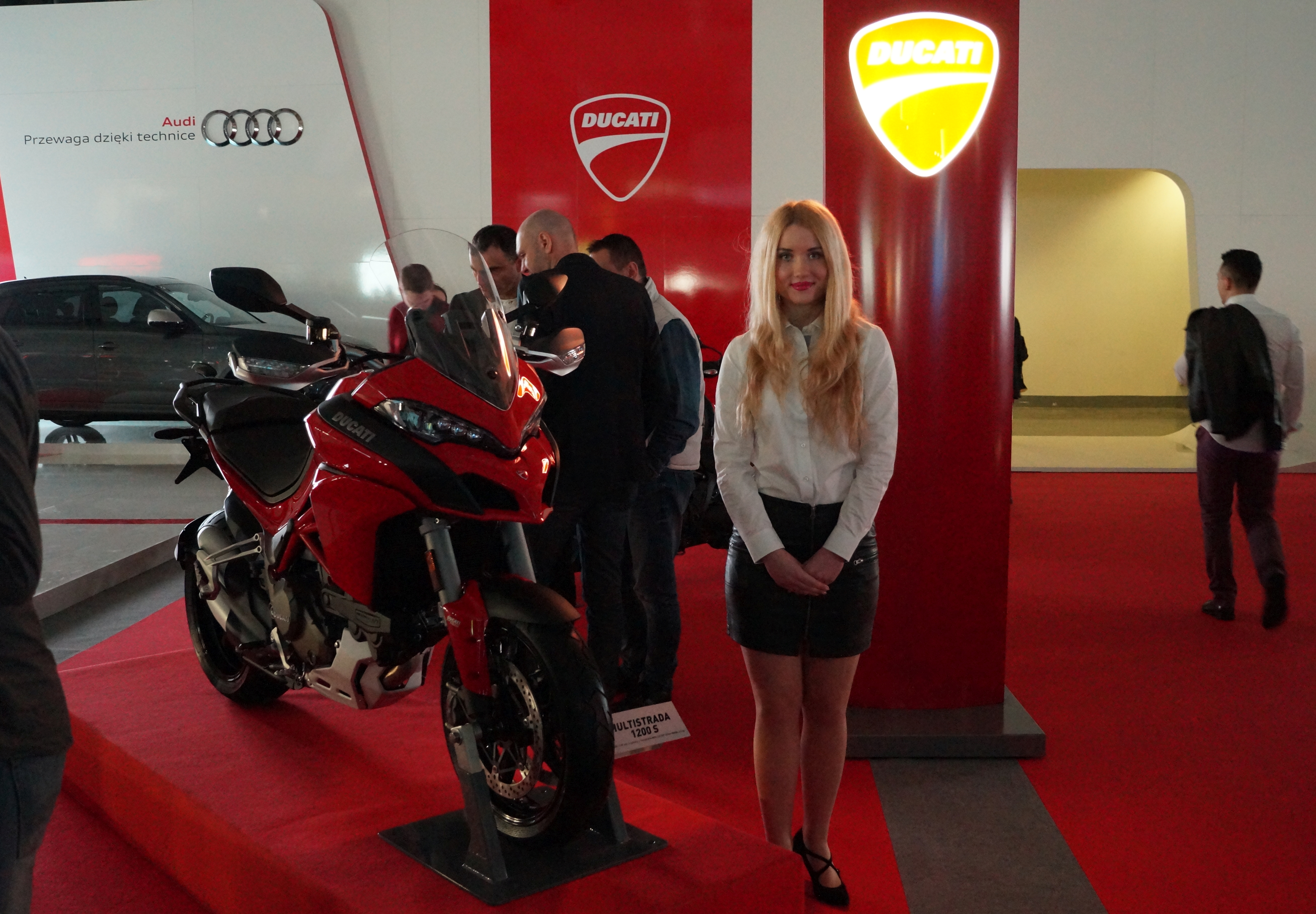 The making of this document was supported by Wikimedia Polska Association, within Wikigrant no. WG 2015-19. English | polski | +/− Motocykl Ducati Multistrada 1200S na Motor Show Poznań 2015